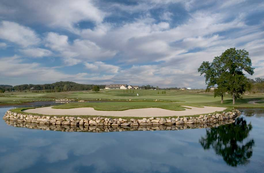 The 10th hole @ Big Creek Golf and Country Club